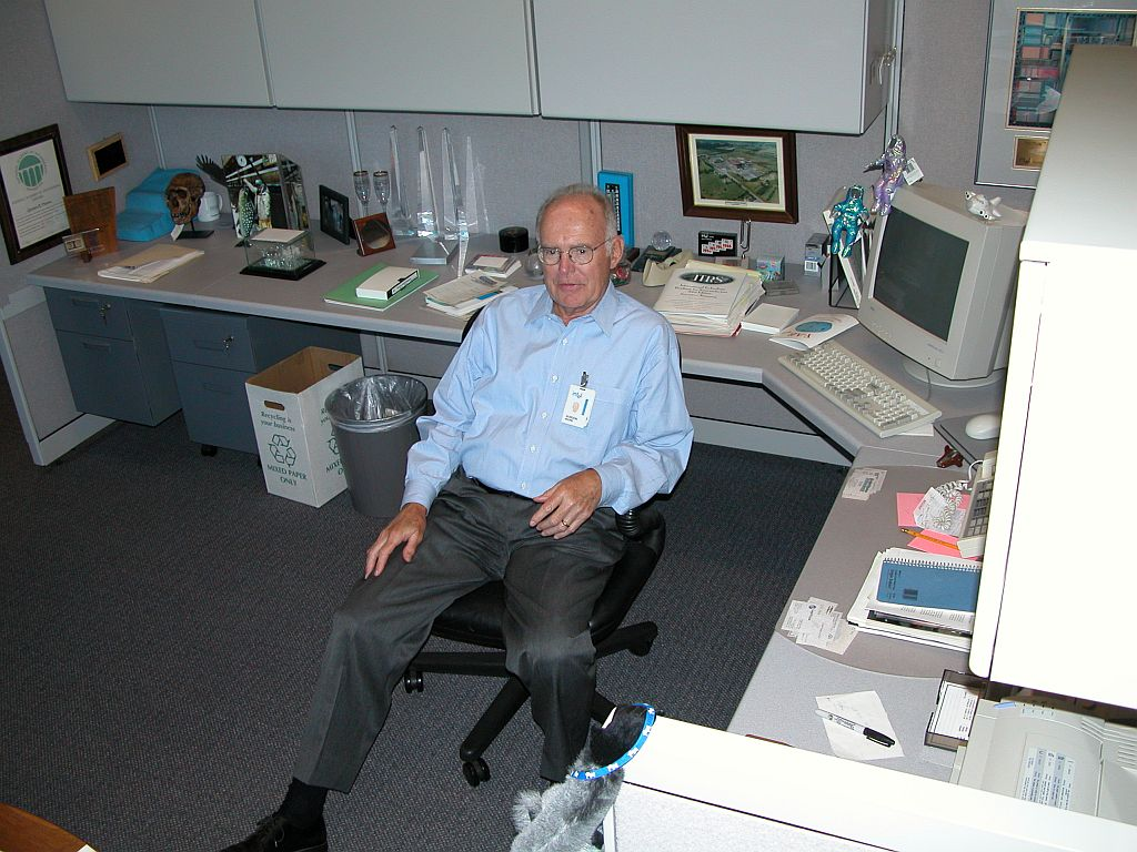 Intel co-founder Gordon Moore in his office at the Robert Noyce Building in Santa Clara, Calif., several years after he officially retired. Moore's office remains mostly intact today, complete with plaques, photos and awards he received over the years. See also: Intel CEOs: A Look Back Since the company was founded in 1968, only five people have led the world's largest semiconductor manufacturer and leading computing company. Since it was founded on July 18, 1968, only five people have led Intel Corporation, a stark contrast to some far younger companies that have had many CEOs over shorter periods of time. The first two CEOs were company founders and the third was a participant from day one. Three of the five are San Francisco natives. The two most recent ascended to the role after decades with the company, each with different backgrounds.